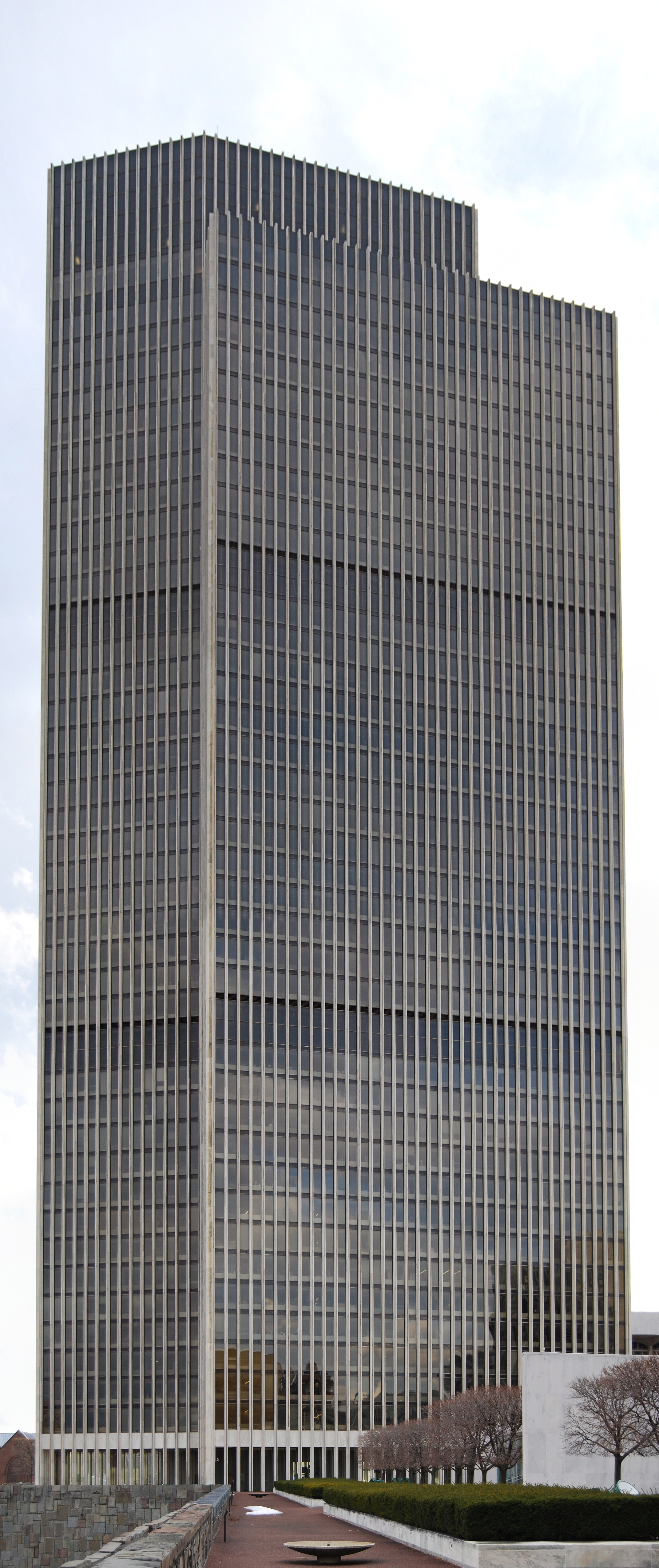 The Erastus Corning Tower in the New York State capital of Albany was completed in 1973 and is named after the former mayor of Albany, Erastus Corning 2nd. The building is part of the Empire State Plaza and is the tallest building in New York outside of New York City at 589 feet (180 m) and 44 stories.